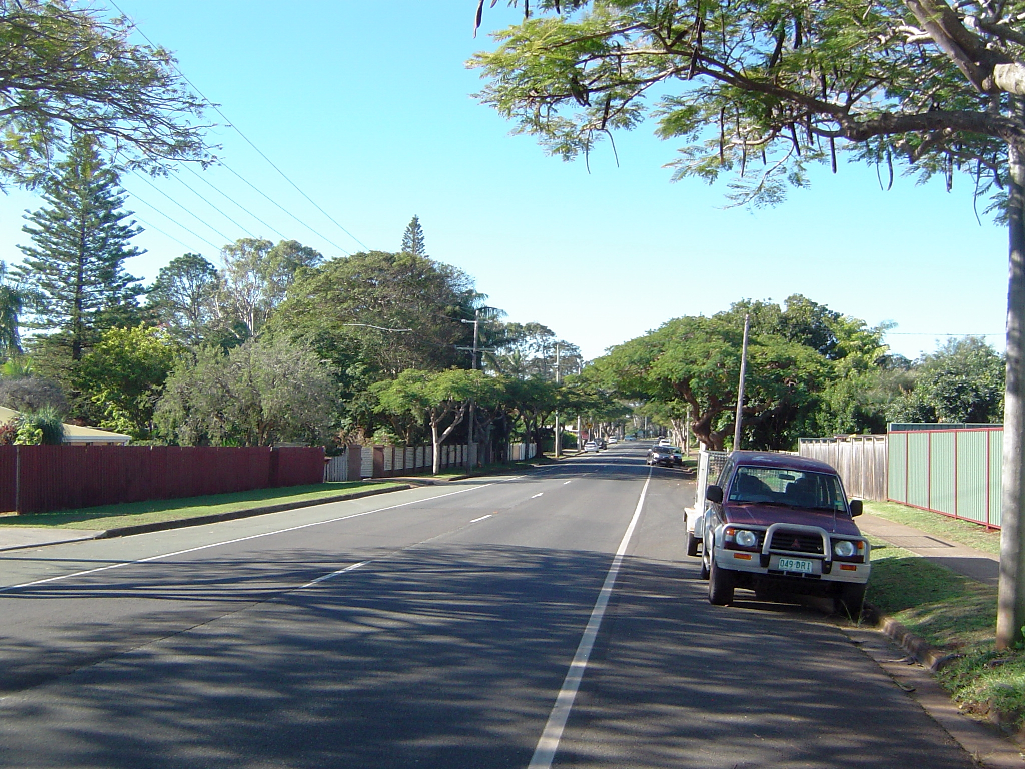 Photo of Colburn Avenue at Victoria Point, Redland City, Queensland, Australia.